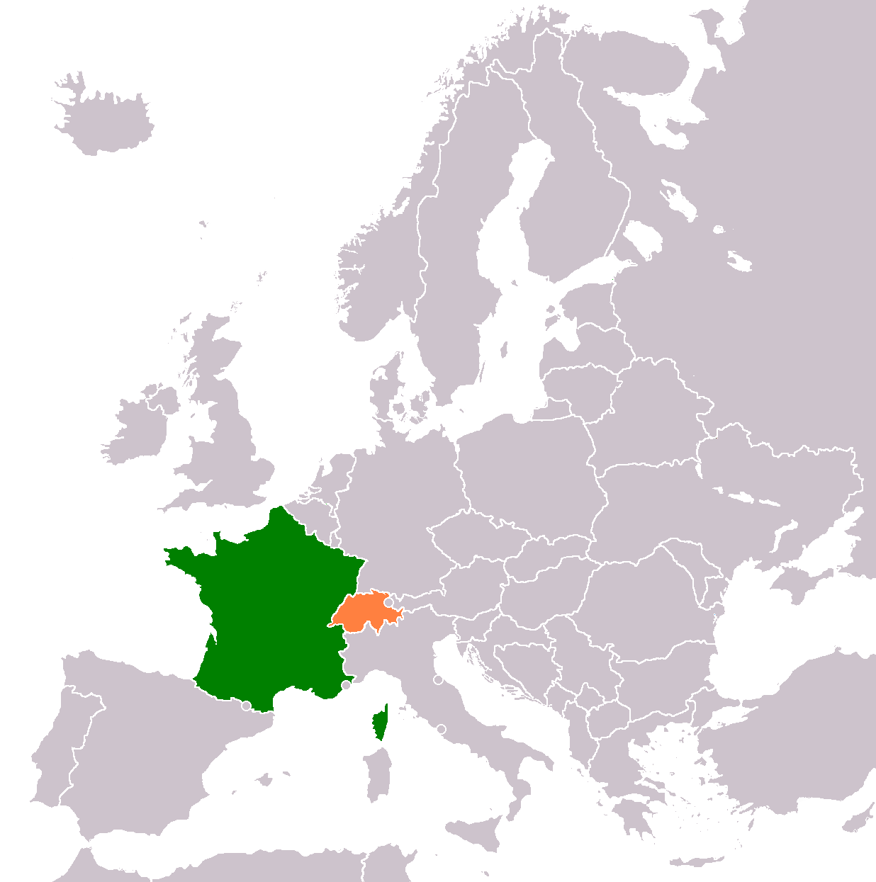 France-Switzerland locator map.